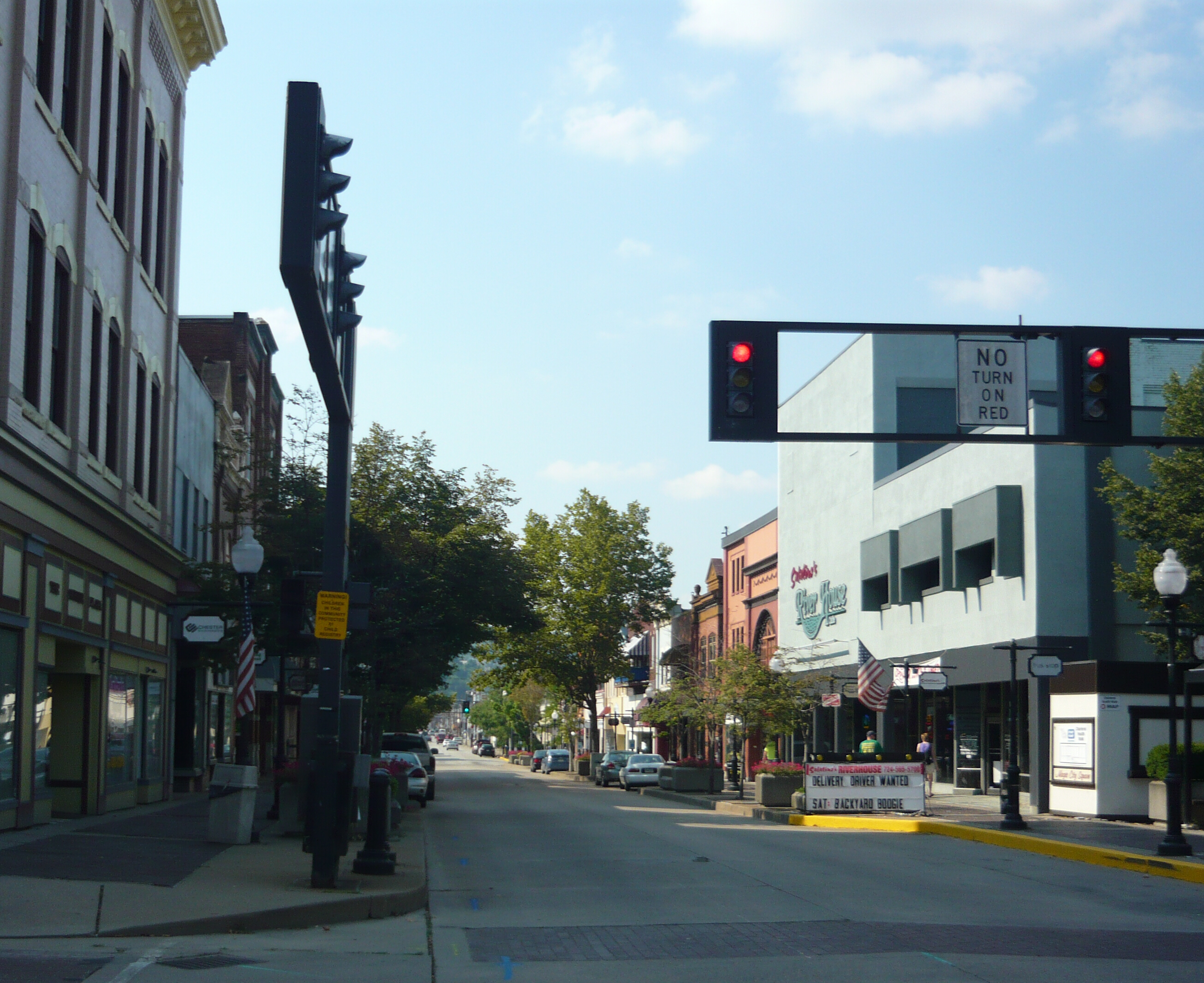 Downtown Charleroi, Pennsylvania. Photo taken looking northward on McKean Avenue between Fourth and Fifth Streets.